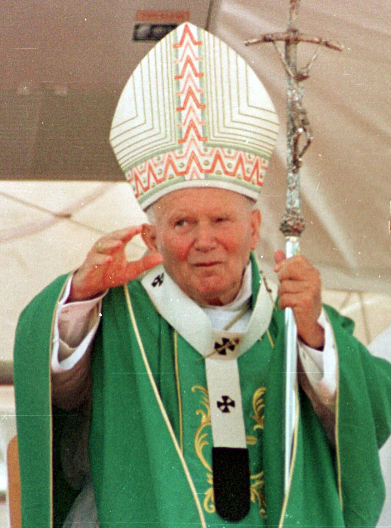 Pope John Paul II in Brazil